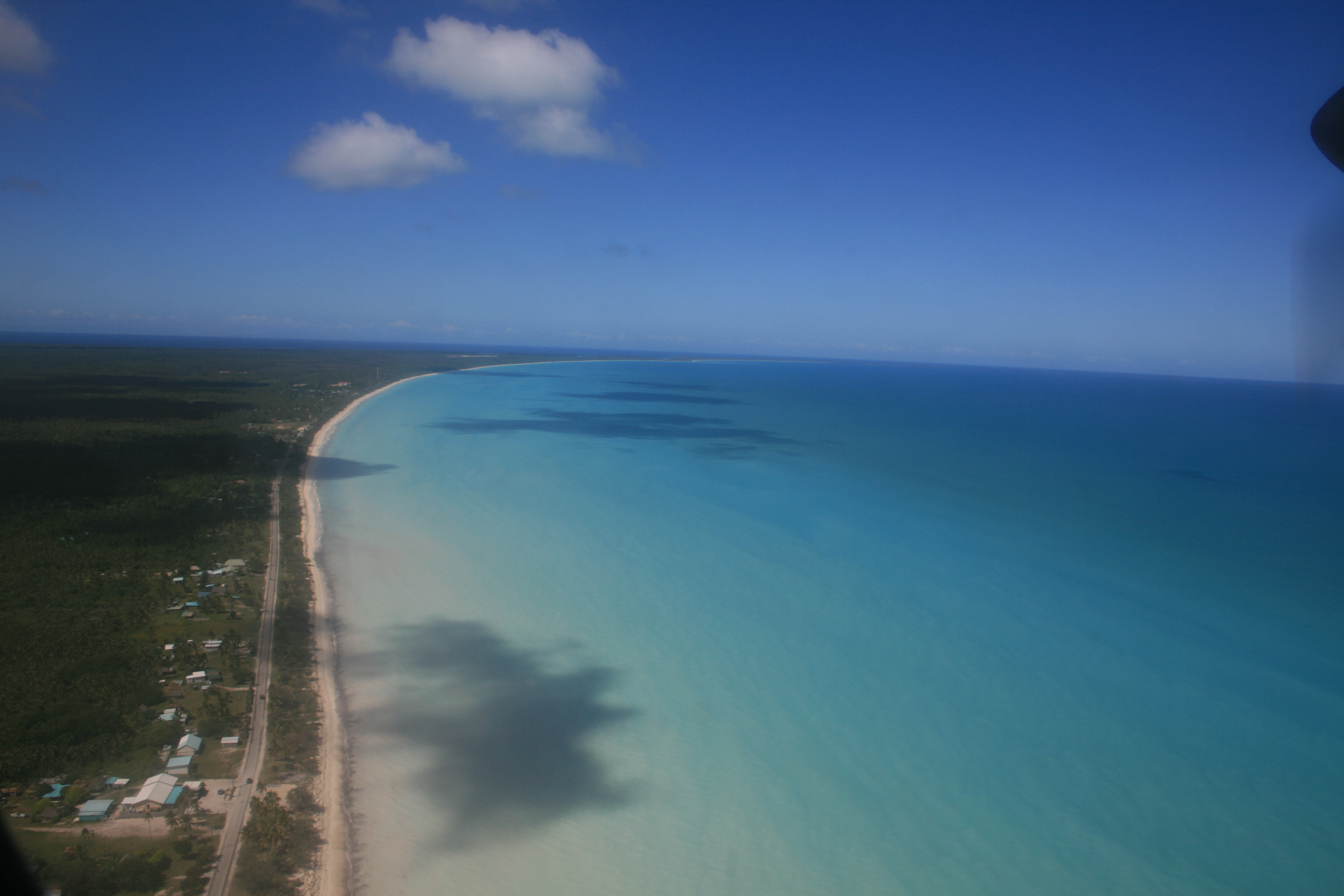 Ouvea by air plan